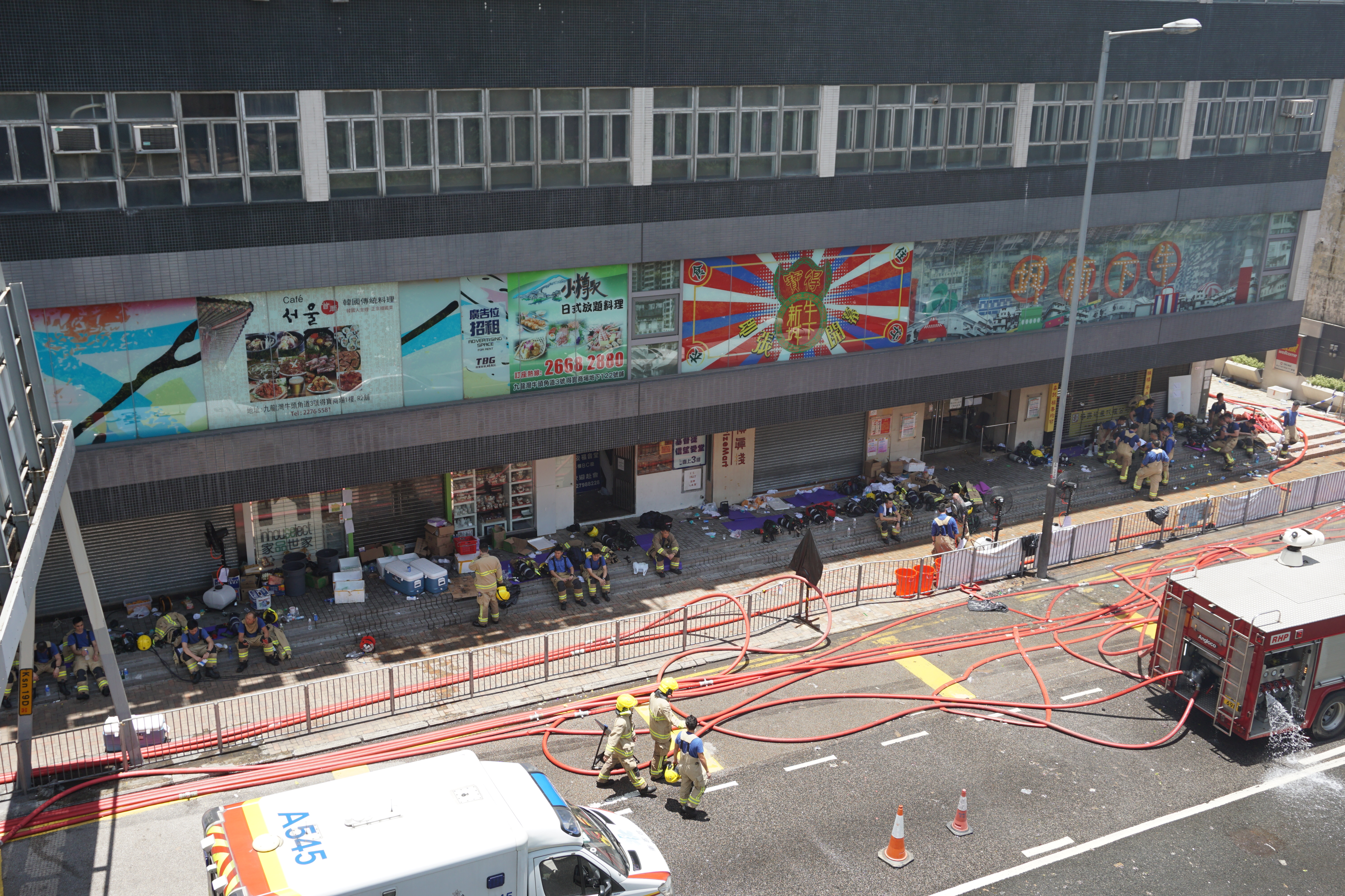 Amoycan Industrial Centre in Kowloon Bay, Hong Kong.